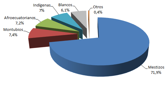 Graphic of the Ecuadorian population distribution by ethnicity according to the census of 2910.